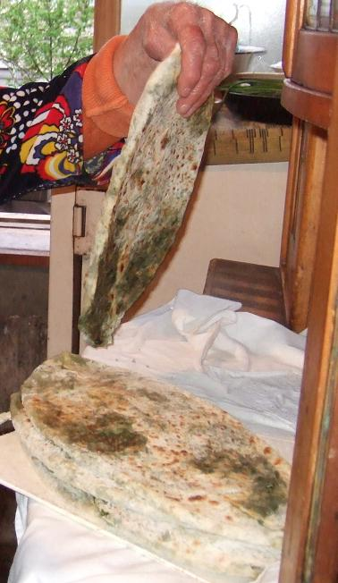 Zhengyalov hats